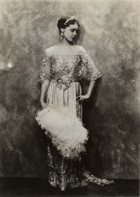 Billy Rose Theatre Division. Eva Le Gallienne, ca. 1920s